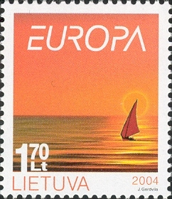 Europe 2004.Vacation. Date of issue: 10th April 2004 Designer: J. Gerdvila Paper: coated Printing process: ofset Perforation: comb 12 Size of a stamp: 30 x 35 mm Size of a Miniature Sheet: 176 x 98 mm Miniature Sheet composition: 10 (5 x 2) stamps Printing run: 500.000 stamps or 50.000 Miniature Sheet Michel catalogue numbers: 842-843 1.70 L. multicoloured. Yacht in the Sea